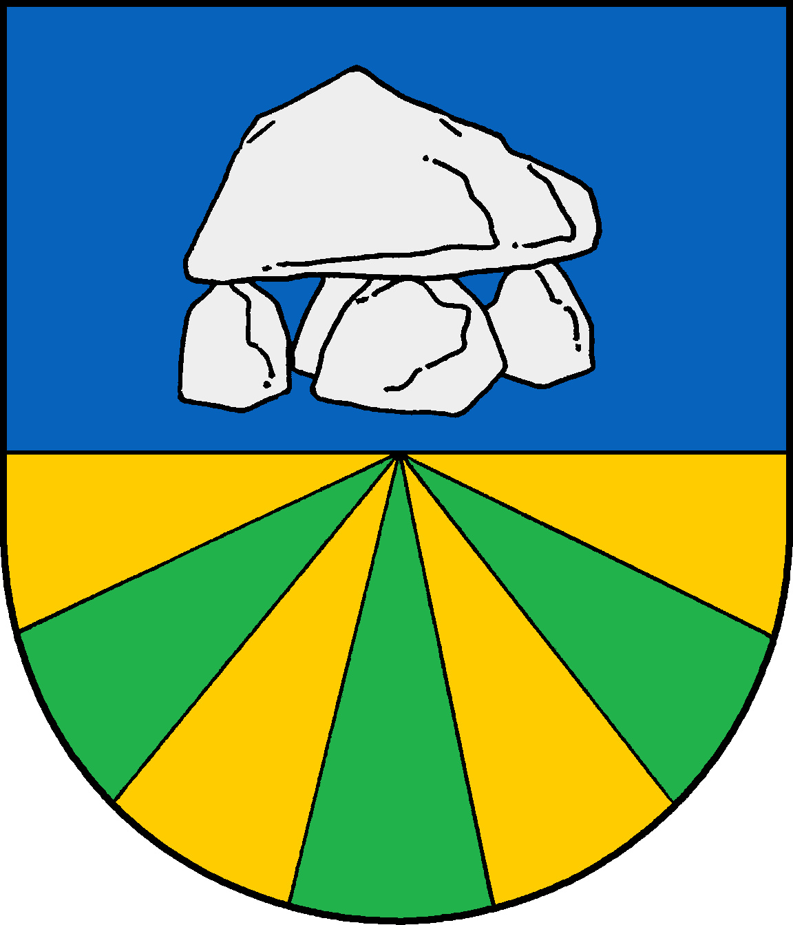 Coat of arms of the municipality Groß Rönnau in Schleswig-Holstein, Germany.